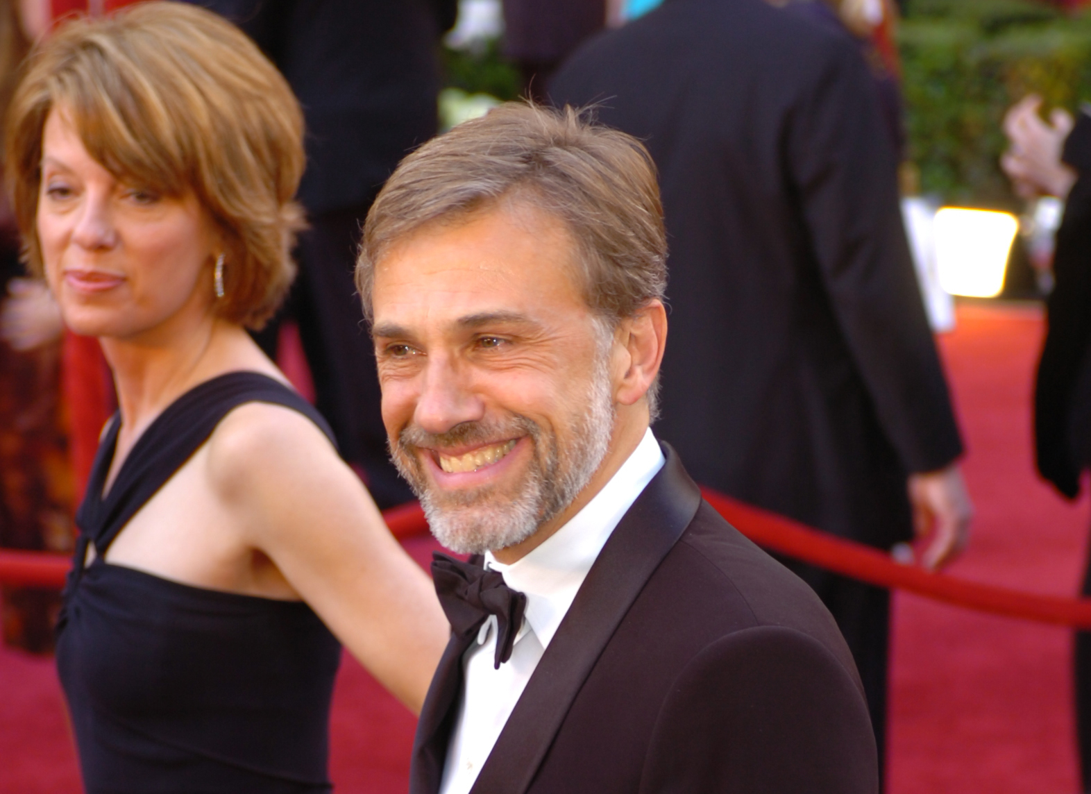 Christoph Waltz and wife Judith Holste walk the red carpet at the 82nd Academy Awards, March 7, in Hollywood, Calif. Waltz took home the best supporting actor Oscar for his role of Col. Hans Landa in "Inglourious Basterds."